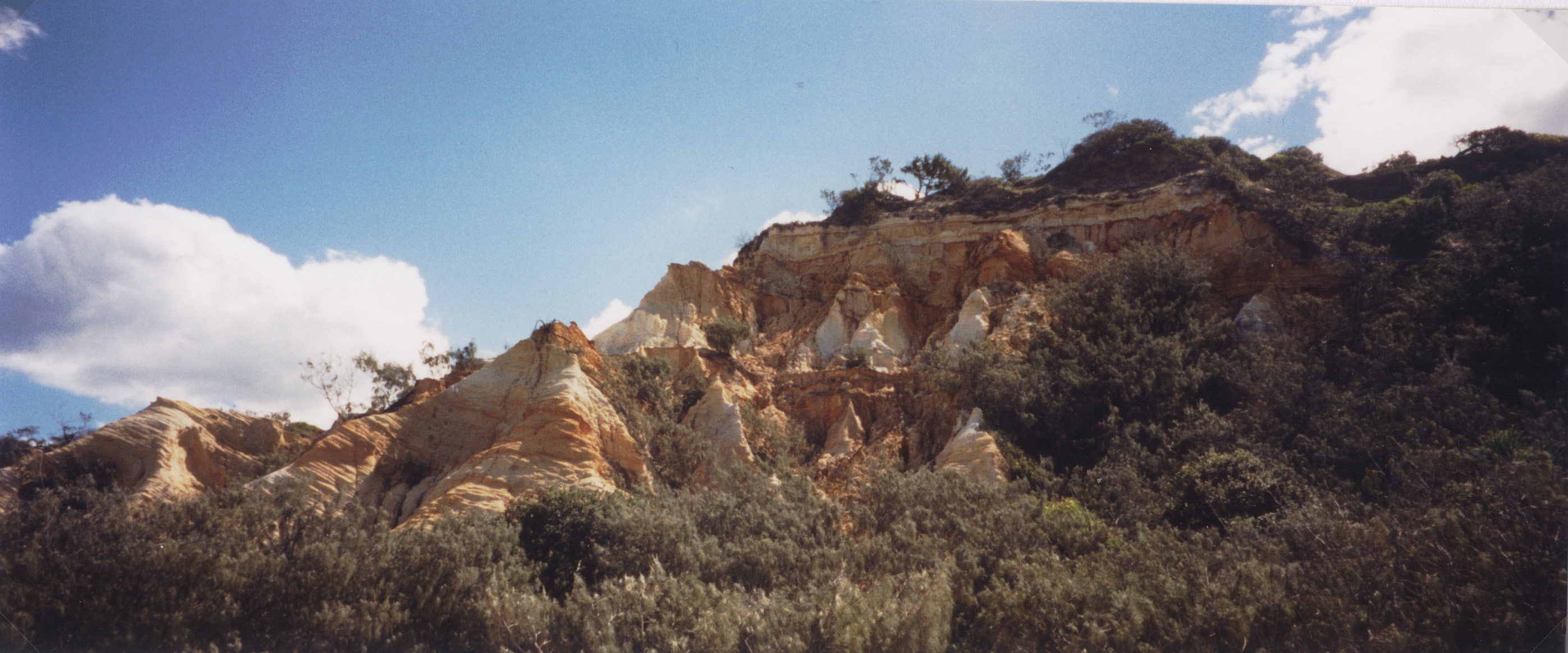 A sand cliff formation called the pinnacles on Fraser Island